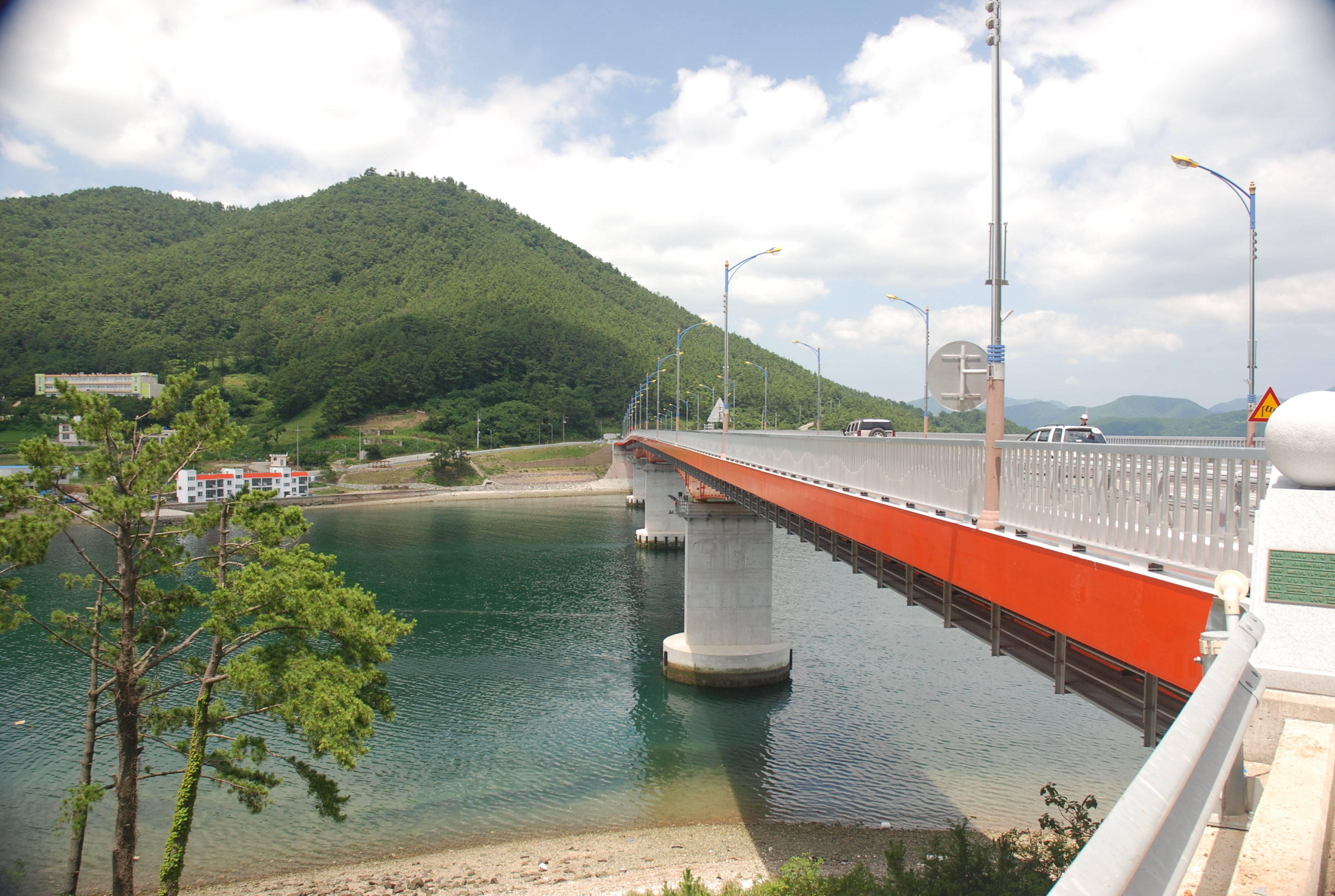 Chubong Bridge (Chubongyo) connecting Hansan Island (Hansando) and Chubong Island (Chubongdo) in Tongyeong, South Gyeongsang province, South Korea.